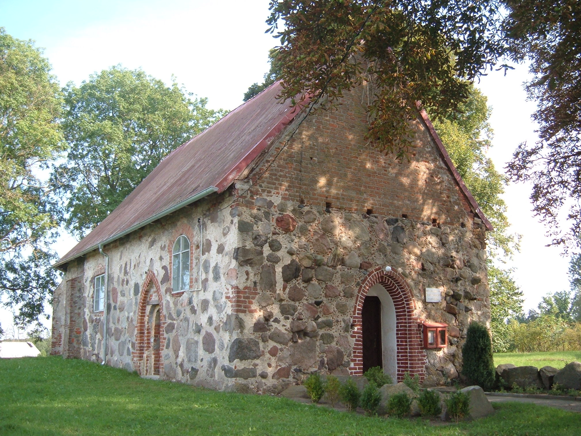 Church in Górki Pomorskie, 23, Górki, gmina Kamień Pomorski, powiat kamieński, West Pomeranian Voivodeship, 72-400, Poland